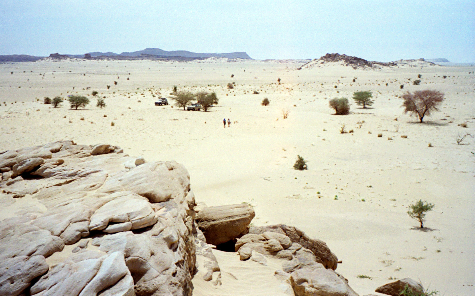 Southern edge of the Sahara Desert outside Agadez, Niger, 1997.1997 #278-13 Sahara